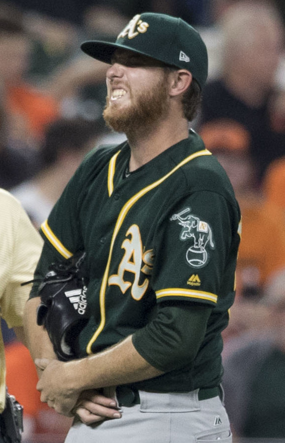 Oakland Athletics pitcher Paul Blackburn is injured in a game against the Baltimore Orioles at Oriole Park at Camden Yards in Baltimore, Maryland on August 22, 2017.